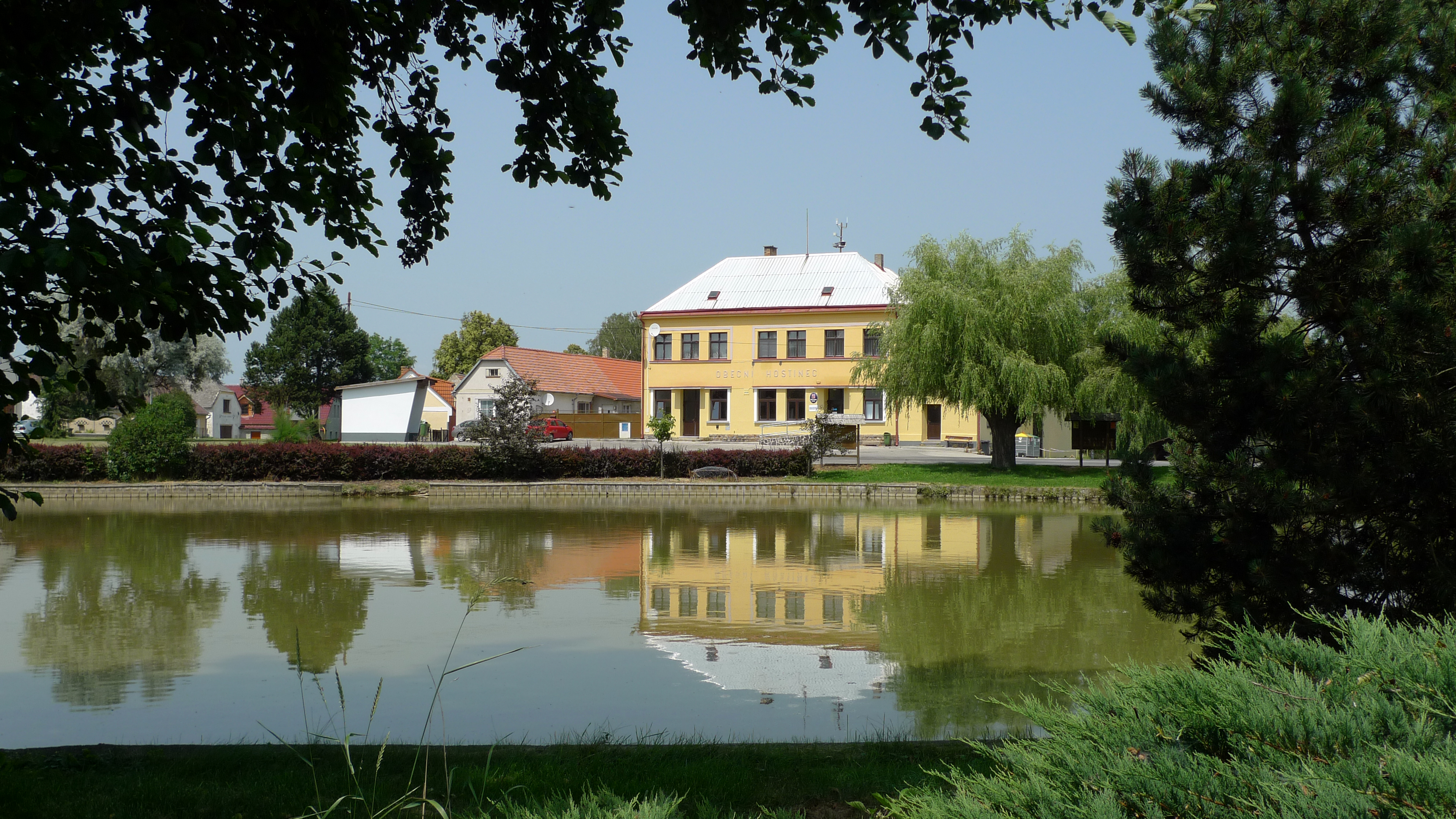 Sviny Village near to Veselí nad Lužnicí, Tábor District, Czech Republic.